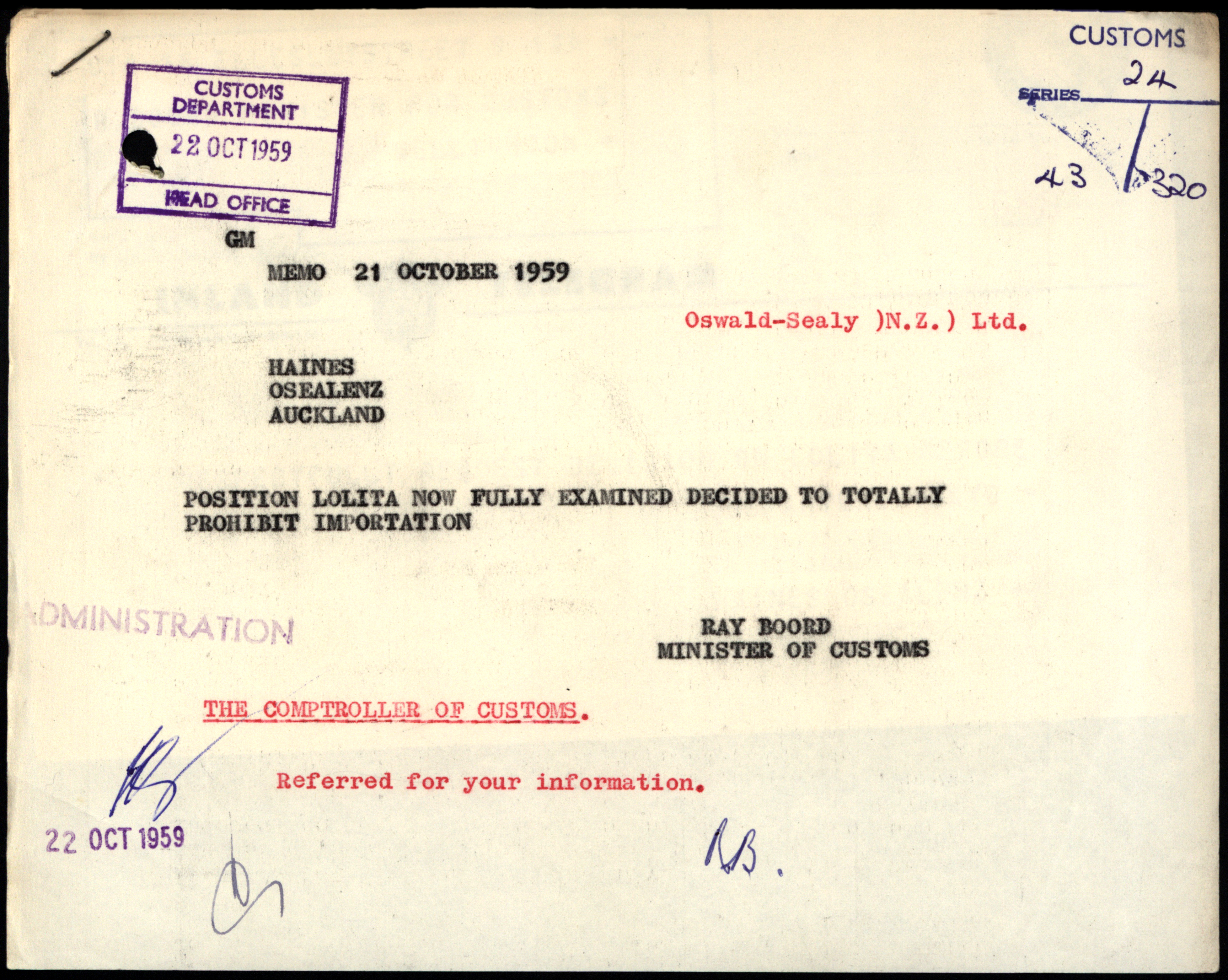 On 6 December 1953 Russian author Vladimir Nabokov completed his novel "Lolita", five years after starting it. The novel is famous for its style and infamous for its subject: the main character, middle-aged Humbert Humbert, becomes obsessed and sexually involved with a 12 year old girl named Dolores Haze. "Lolita" was banned in New Zealand by the Minister of Customs in 1959, against the advice of his own literature committee, which recommended the sale of the book be permitted, provided booksellers exercised discretion. The Minister of Customs, Mr Boord, at first offered no reason for his decision to ban the novel, providing only a curt telegram (shown above). It was only until he was pressed that he claimed the novel would breach the Indecent Publications Act if it were allowed in New Zealand. Following the ban, the New Zealand Council of Civil Liberties imported the novel into New Zealand in order to challenge this ban through the Supreme Court. Unusually, the Government agreed to cover the legal costs involved with the case. The appeal lost in the Supreme Court on the basis that the book placed excessive accent on matters of sex. The Supreme Court decision was appealed to the Court of Appeal but the ban was upheld by a majority decision. It was not until 1964 that the classification on Lolita in New Zealand was lifted, following a submission to the Indecent Publications Tribunal. Today, Lolita is a considered a classic of modern literature, and sits alongside other famously banned novels, such as J.D. Salinger's The Cather in the Rye, and Joyce's Ulysses. This telegram comes from a file regarding tariffs on prohibited literature, created by the New Zealand Customs Office. Archives Reference: ACIF 16554 W1786 Box 169 24/43/320 For updates on our On This Day series and news from Archives New Zealand, follow us on Twitter Material from Archives New Zealand